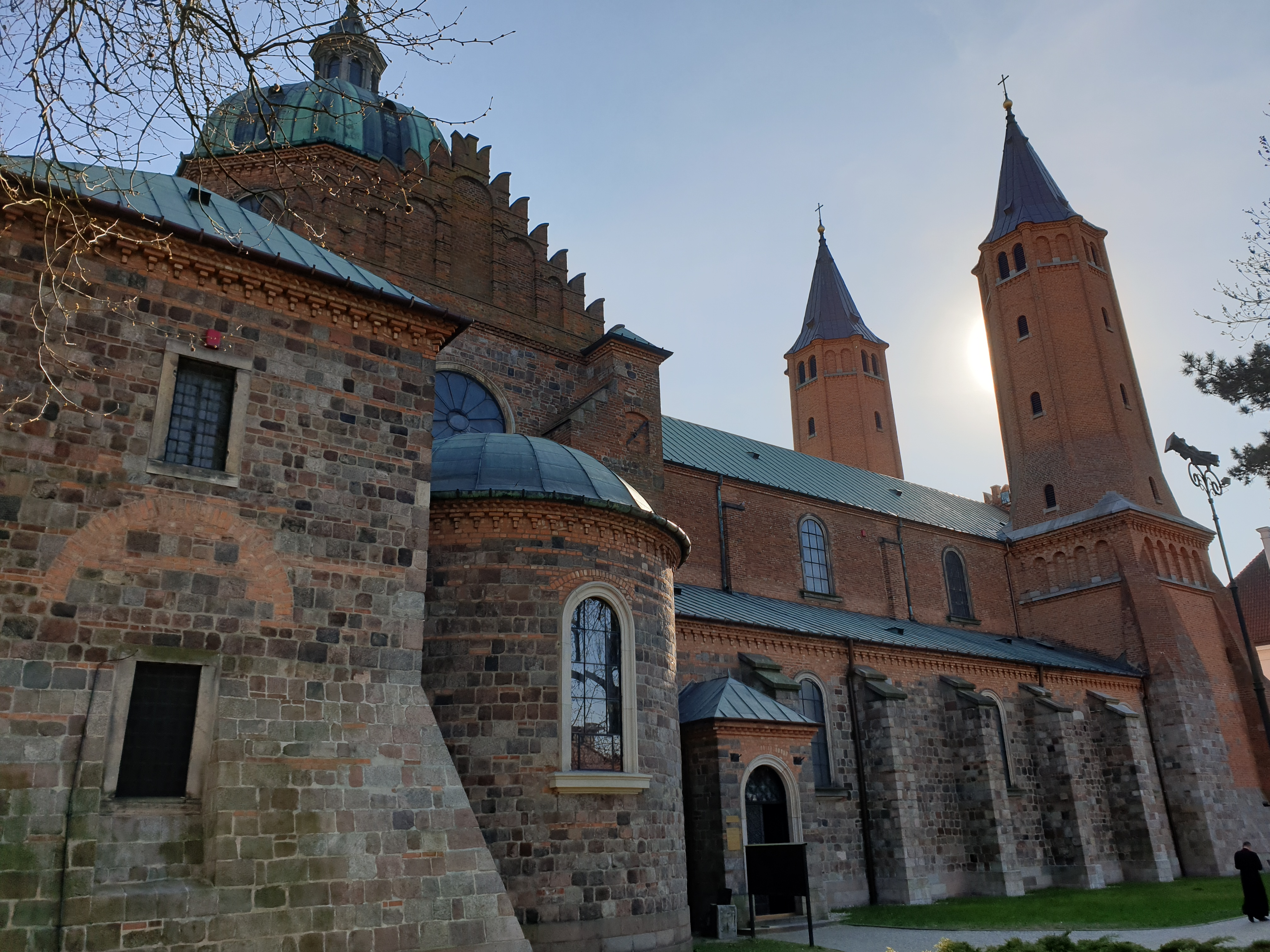 Exterior of the Płock Cathedral, Poland, April 2019